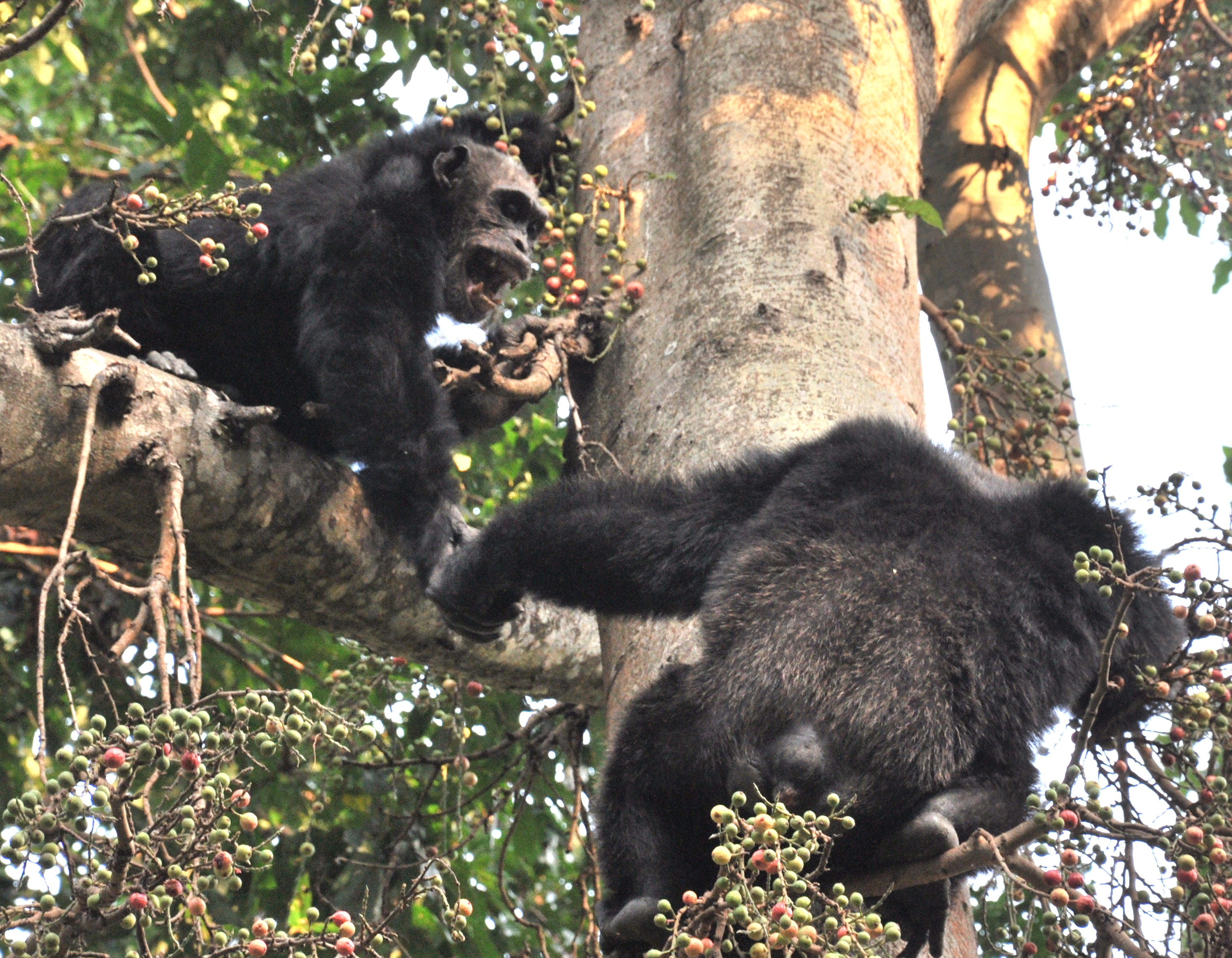 Alpha male chimp and older jump on fig tree